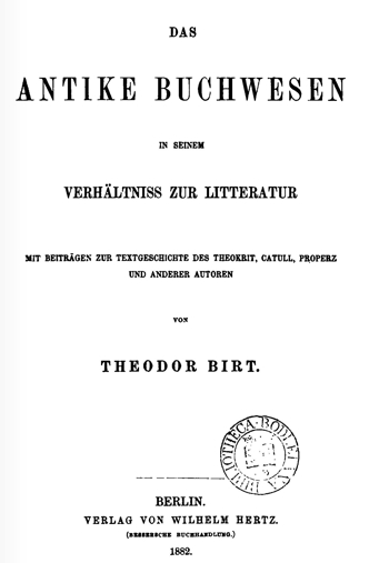 The title page from Theodor Birts book entitled Buchwesen